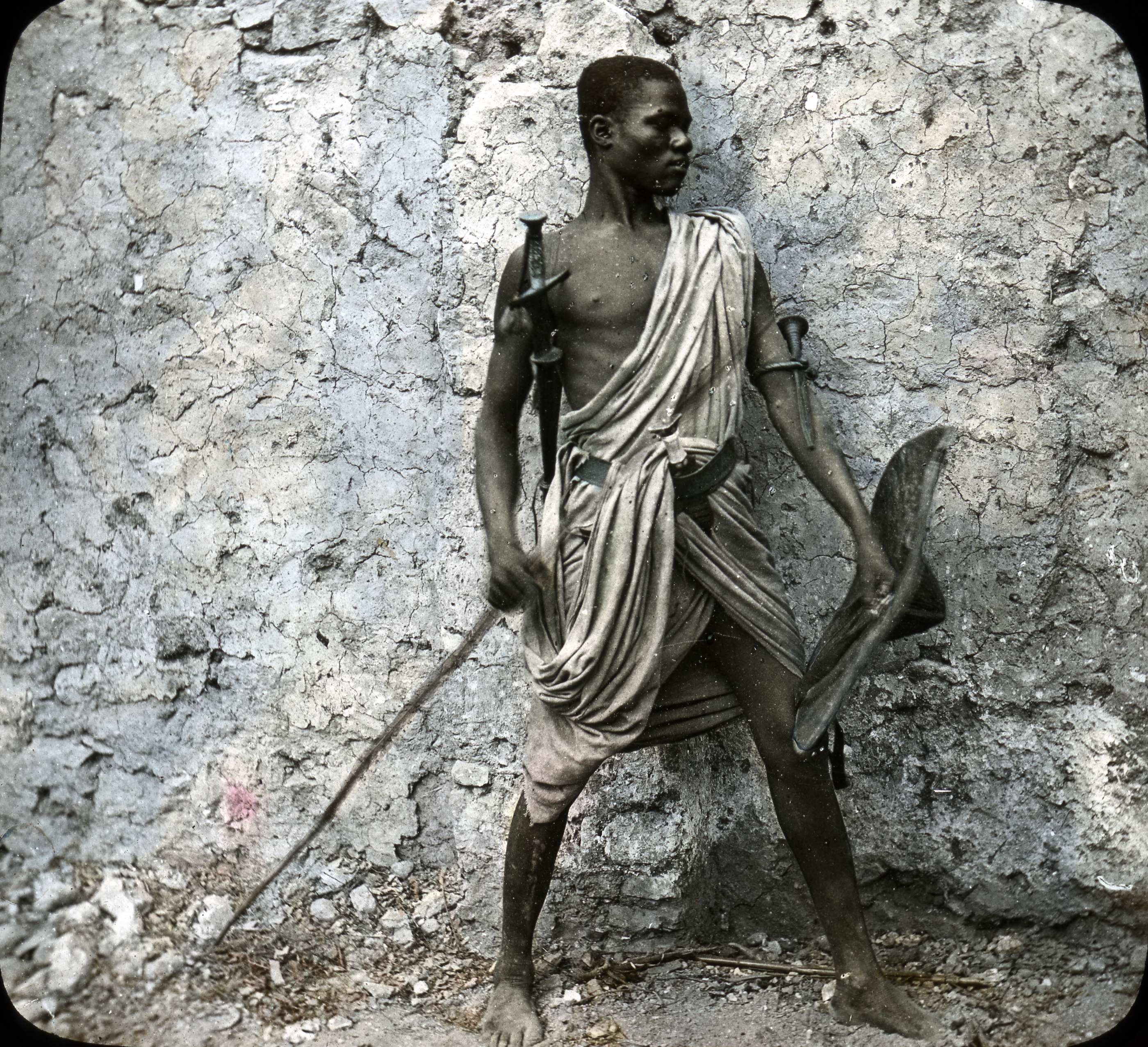 Lantern Slide Collection: Views, Objects: Egypt. General Views\People [selected images]. View 019: Egypt - Nubian., n.d., T. H. McAllister, Manufacturing Optician. 49 Nassau Street, New York. Brooklyn Museum Archives (S10|08 General Views_People, image 9762). Help us map this image by using Suggestify to suggest a location for it.